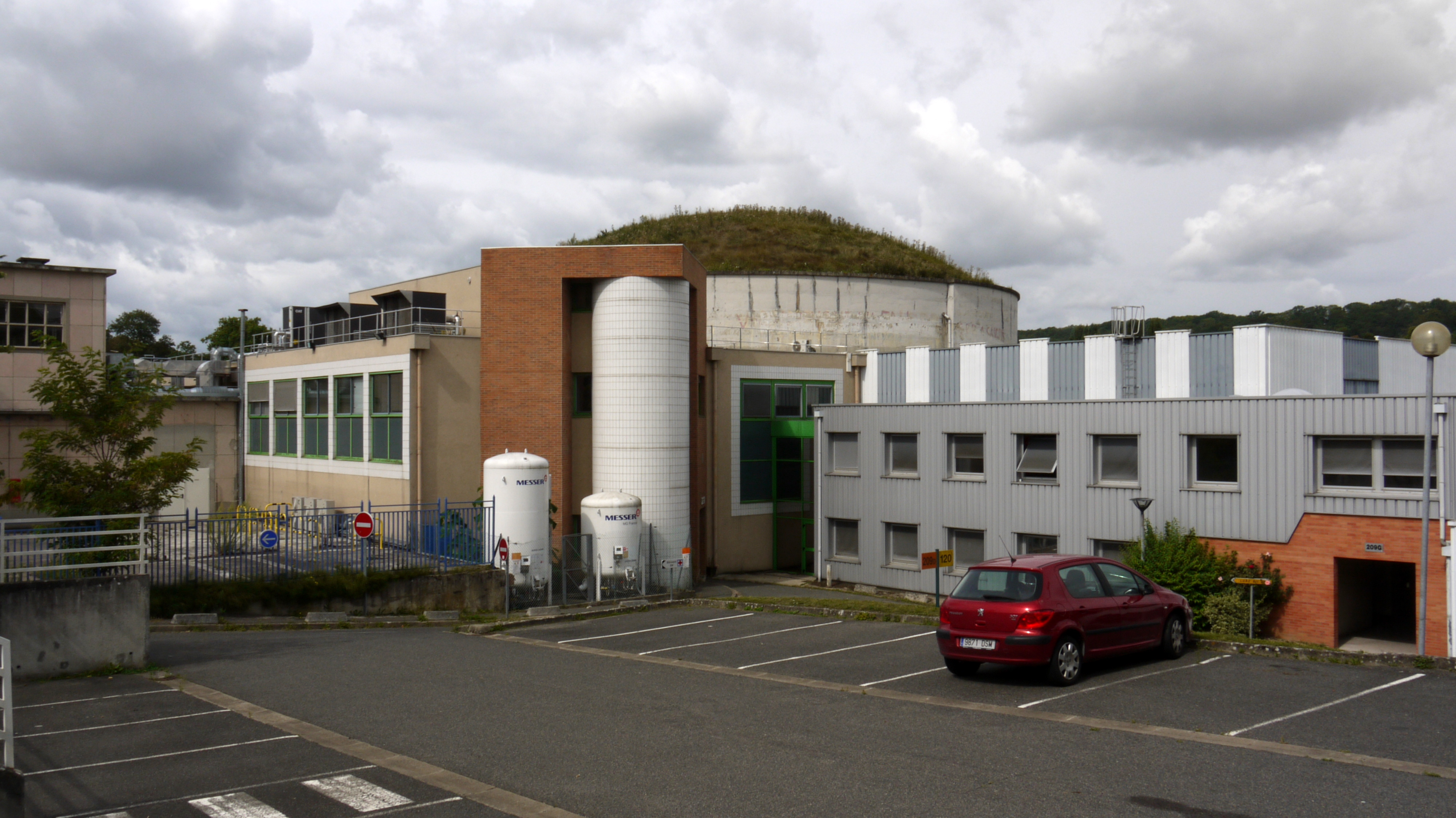 Linear particle accelerator Orsay , France